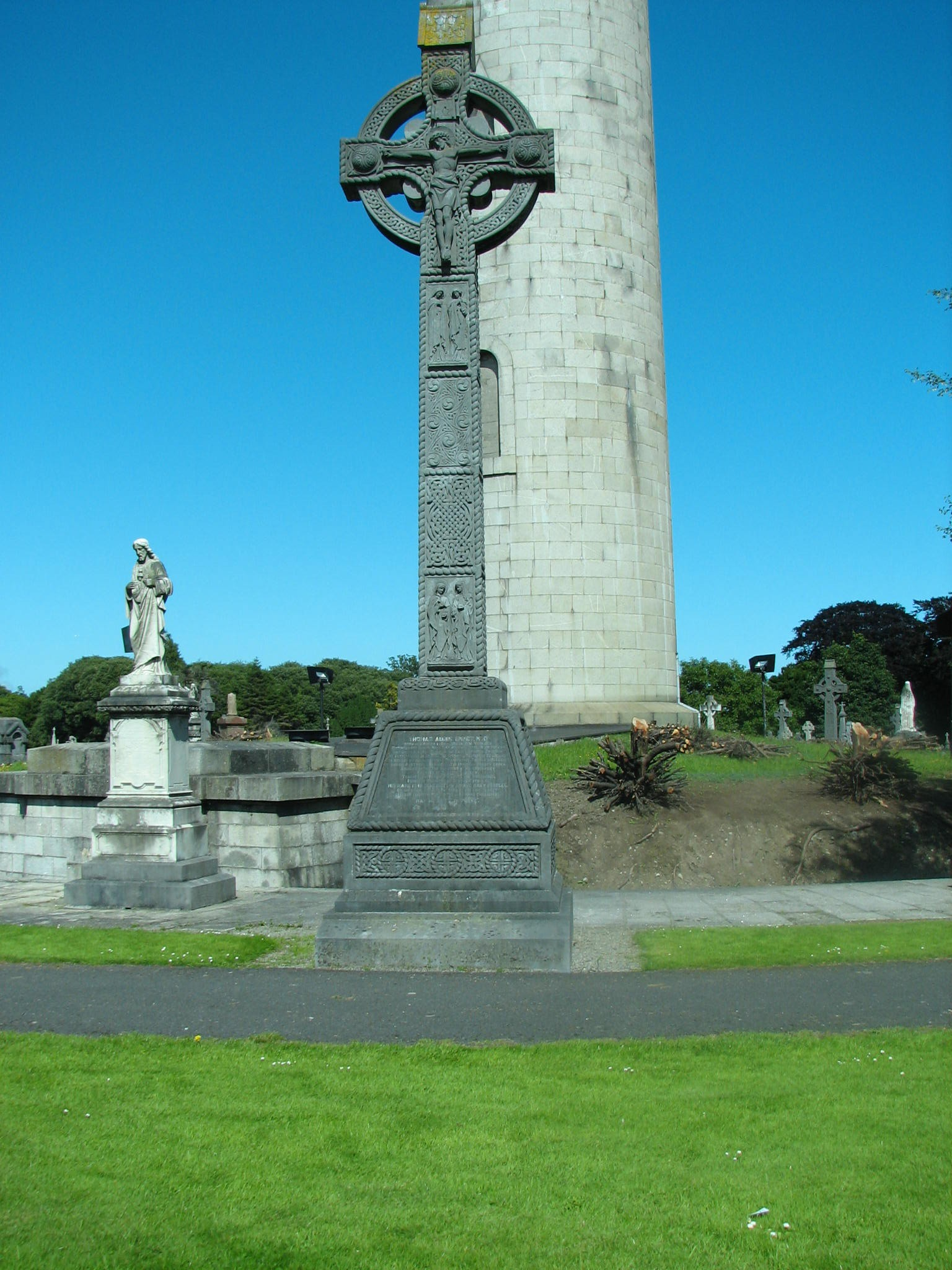 Grave of Thomas Addis Emmet, Glasnevin Cemetery, Dublin. The Tower in the background is that of Daniel O’Connell. Thomas was the older brother of Robert Emmet.